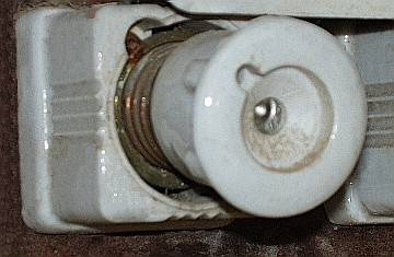 Dangerous fuseholder. As porcelain insulator is missing, it is easy to get electrical shock replacing fuse